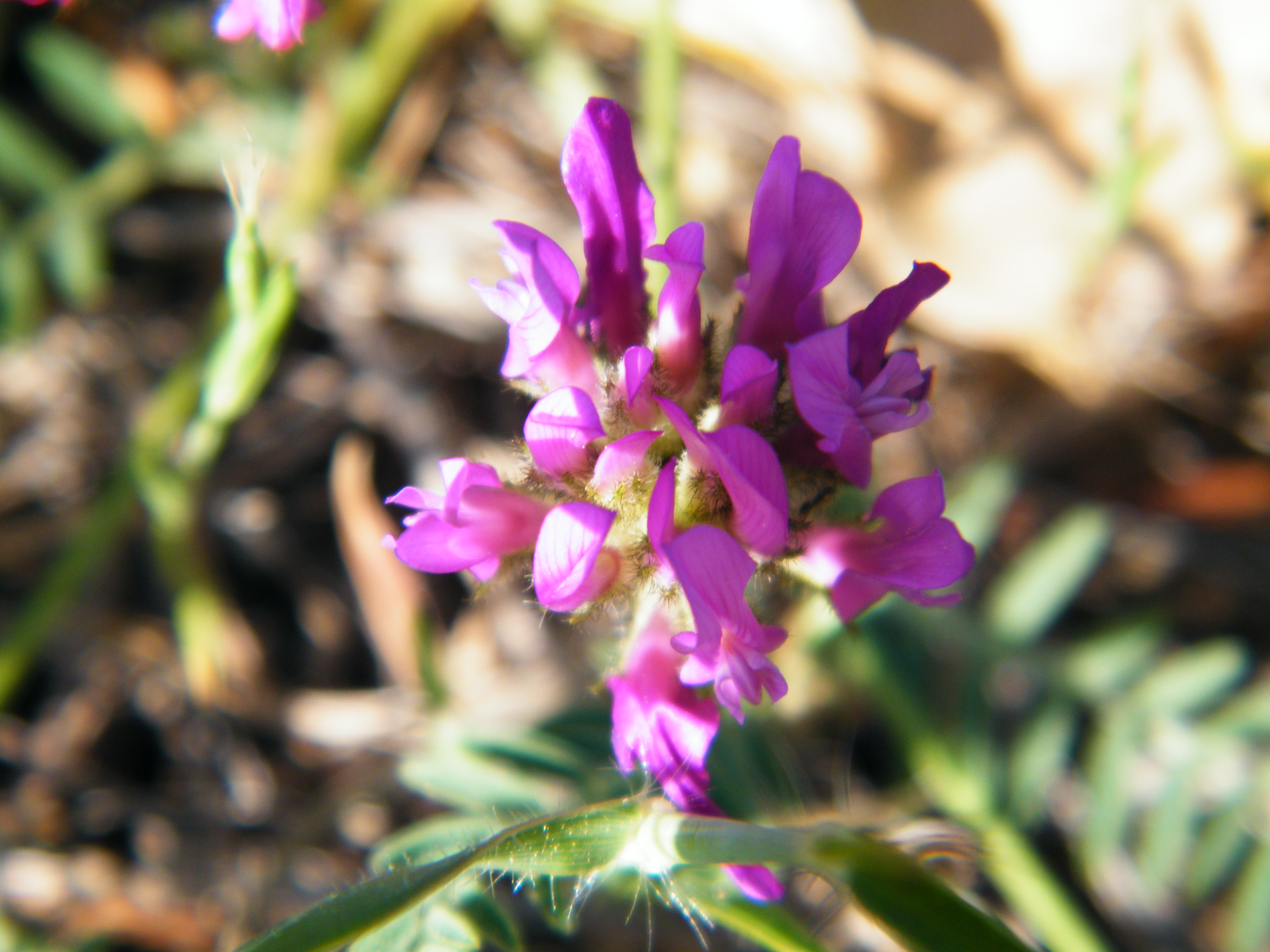 Astragalus onobrychis in Laspi Bay